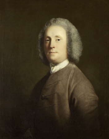 Oil painting on canvas, Thomas Veale Lane (1741/2 -1817) of Coffleet, Devon, by Sir Joshua Reynolds PRA (1723-1792), painted 1762-64. A half-length portrait of Thomas Lane facing to the left, wearing a mauve coat and a white stock. Provenance: By descent to Julia Lane, Mrs Henry Arthur Hoare of Wavendon; given to the National Trust along with Stourhead House, its grounds, and the rest of contents by Sir Henry Hugh Arthur Hoare, 6th Bt (1865 – 1947) in 1946.